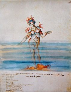 La pellegrina 1589 - Intermedio 5 - Il canto d’Arione - Nymphe